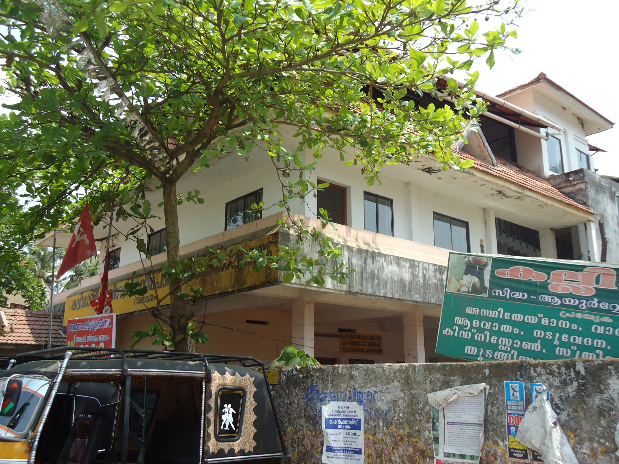 Malayattoor Neeleeswaram Panchayat Office